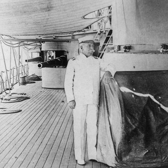 Admiral George Dewey, USN (1837-1917). On board his flagship, USS Olympia, in Manila Bay, Philippine Islands. Note awning overhead, 8"/35 gun turret at right and 5"/40 broadside guns in the background.